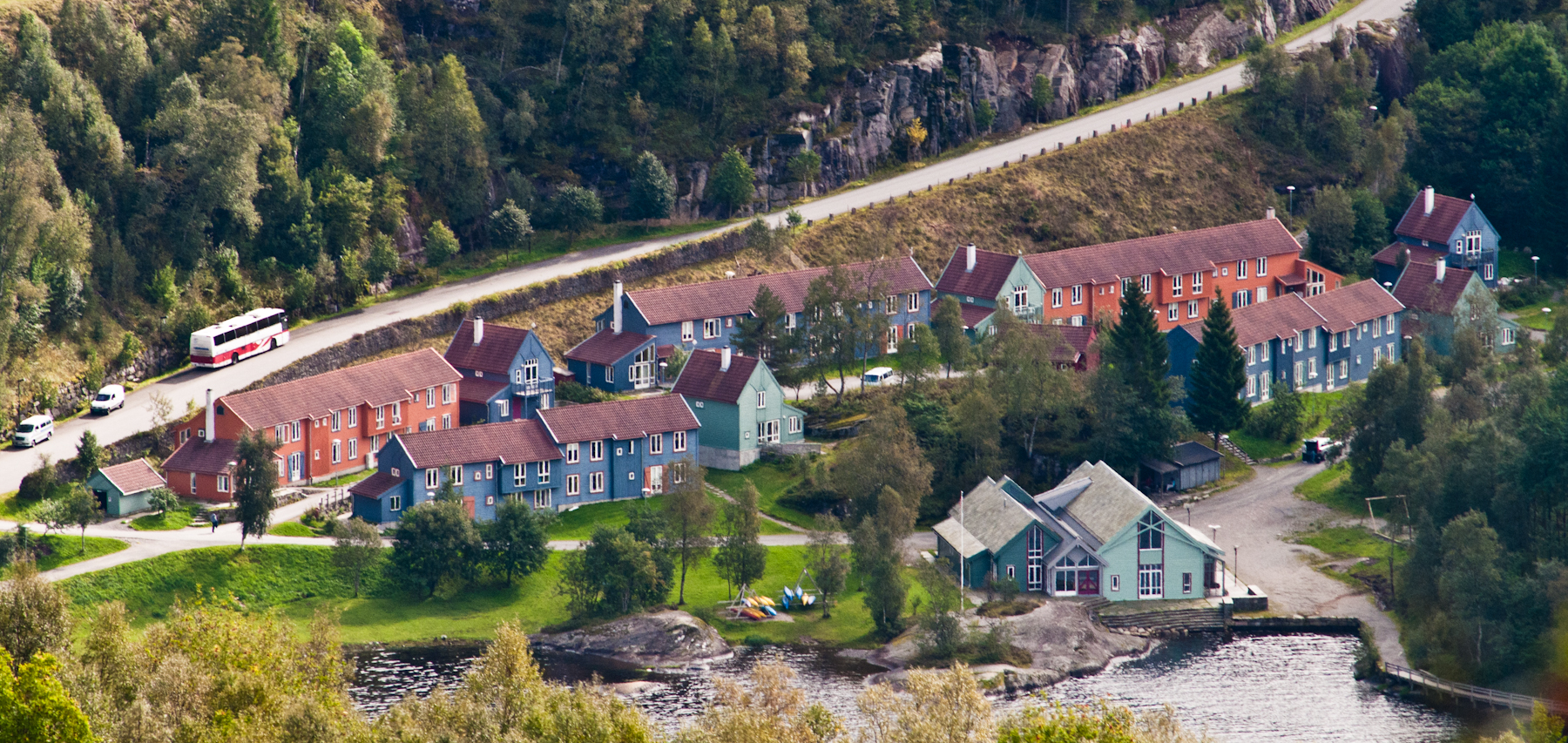 Student dormitories at UWCRCN (Fjaler, Norway) as of September 2009.